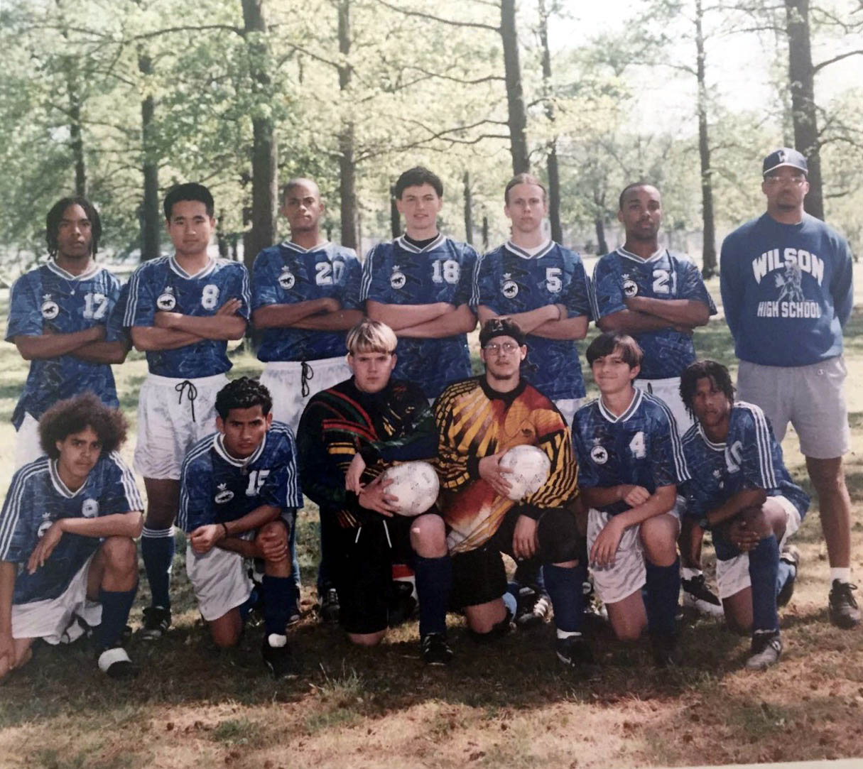 Woodrow Wilson High School Soccer Team 1994 1995. Coach Green, Carlos Carrasco, Tim Loulies, Orion King, Taisuke Sato, Jurij Toplak.